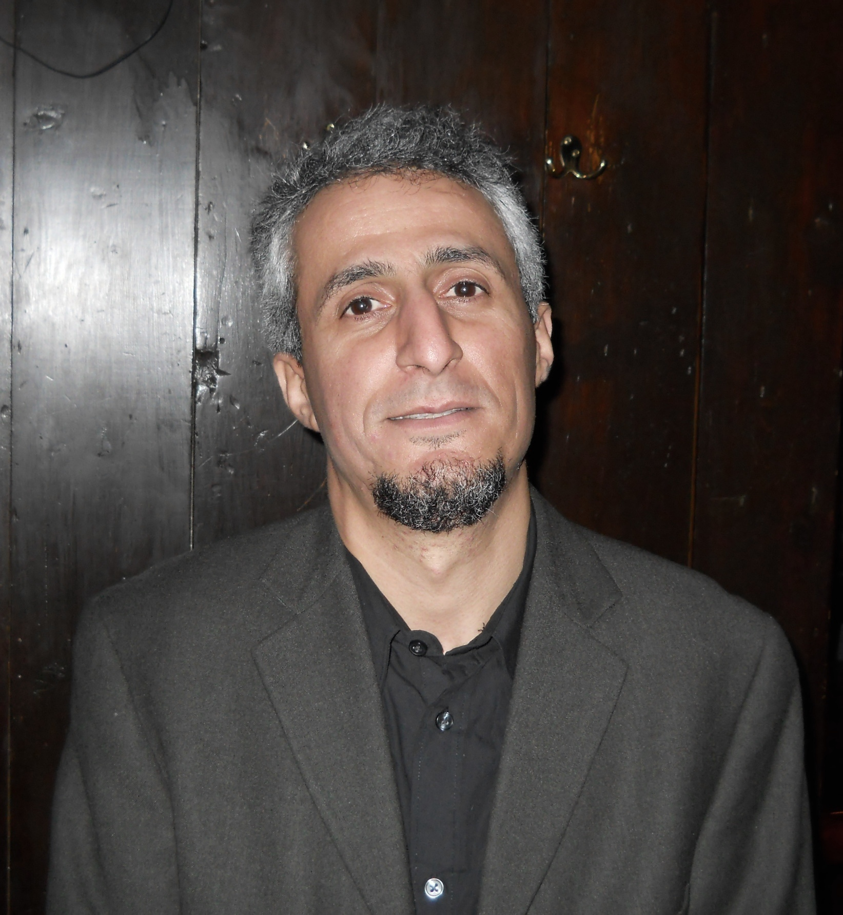 This picture is taken after Mohsen Namjoo concert at MIT, Cambridge, Massachusetts, on November 19, 2011